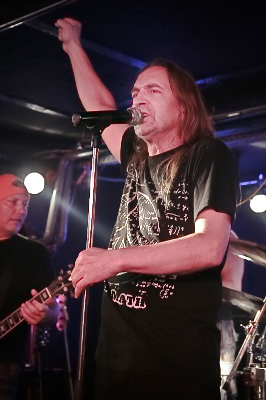 Marek Piekarczyk with TSA band